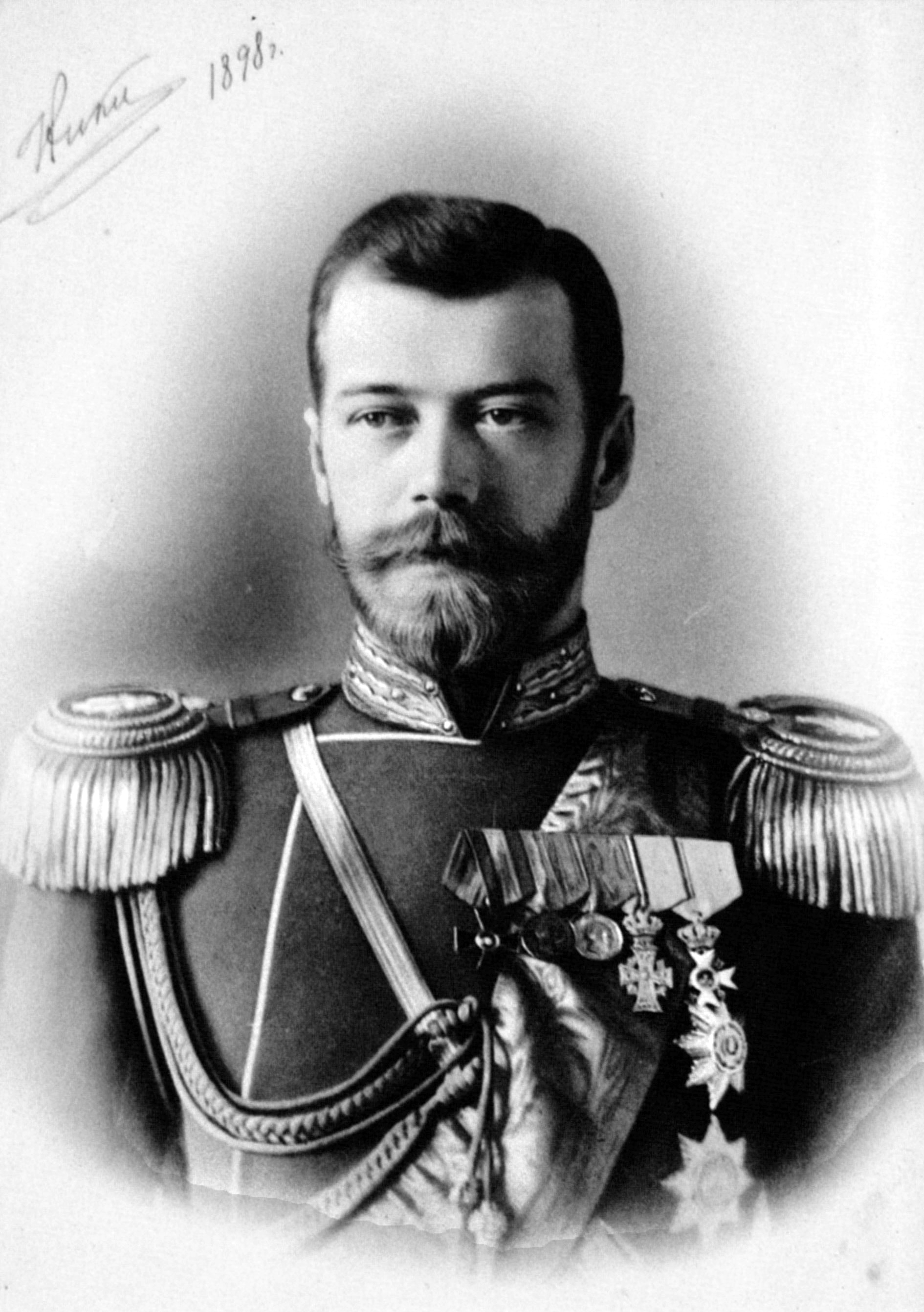 Photo taken by A. A. Pasetti of Tsar Nicholas II of Russia, near age 30, at St. Petersburg, Russia, 1898.